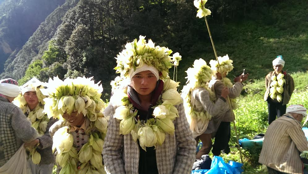 सुर्मा सरोवर जात्रामा सहभागी वीरे